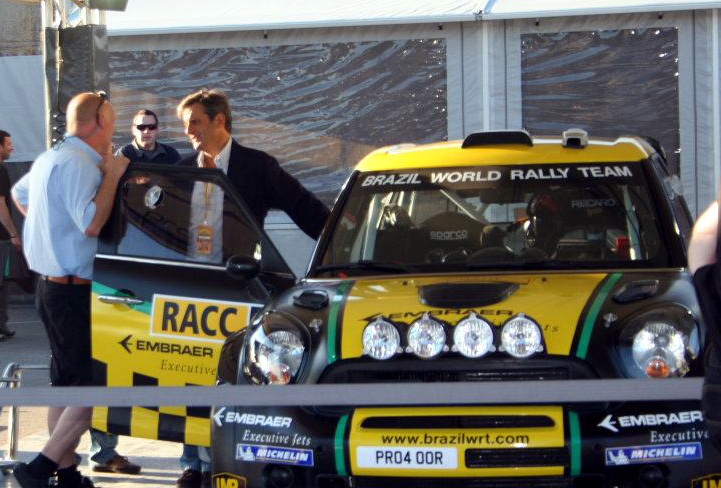 Luis Moya with Brazil World Rally Team in 2011 Rally Catalunya.